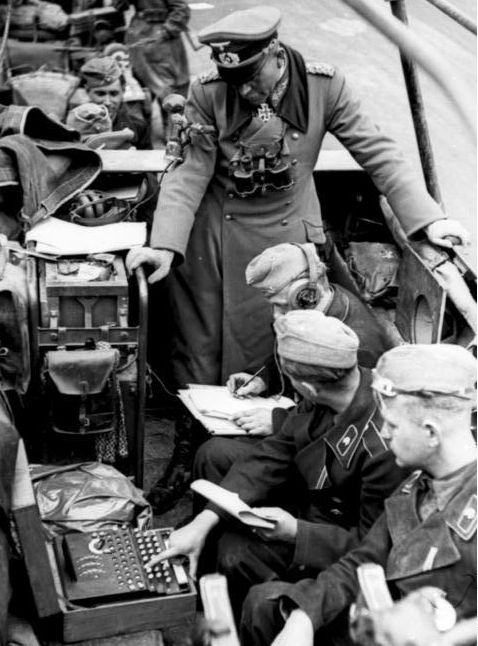 SdKfz.251/3 ausf. A armoured command vehicle